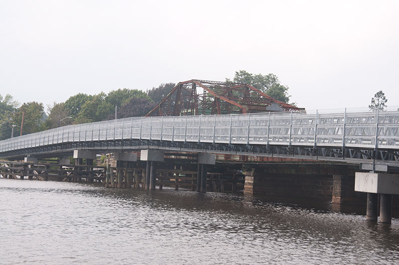 Berkley-Dighton Bridge obscured by the new temporary bridge built to take the load while the B-D Bridge is torn down and replaced. The temporary bridge is effectively complete.